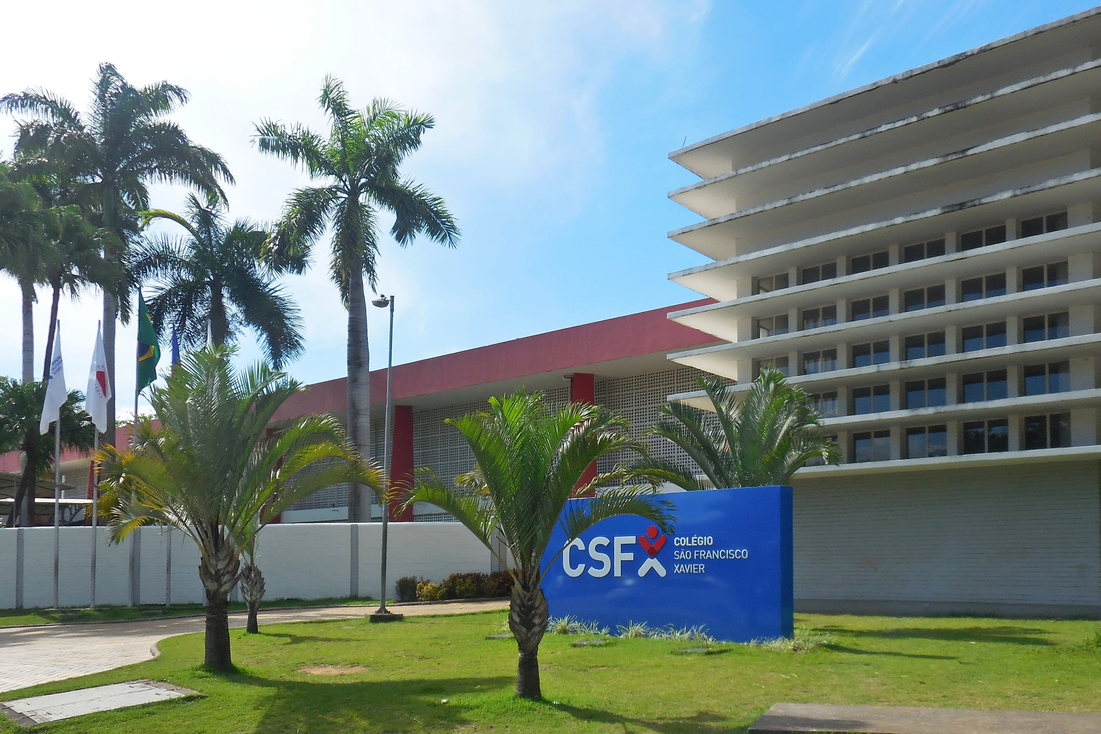 Partial view of the São Francisco Xavier collegium, in Ipatinga, Minas Gerais, Brazil.